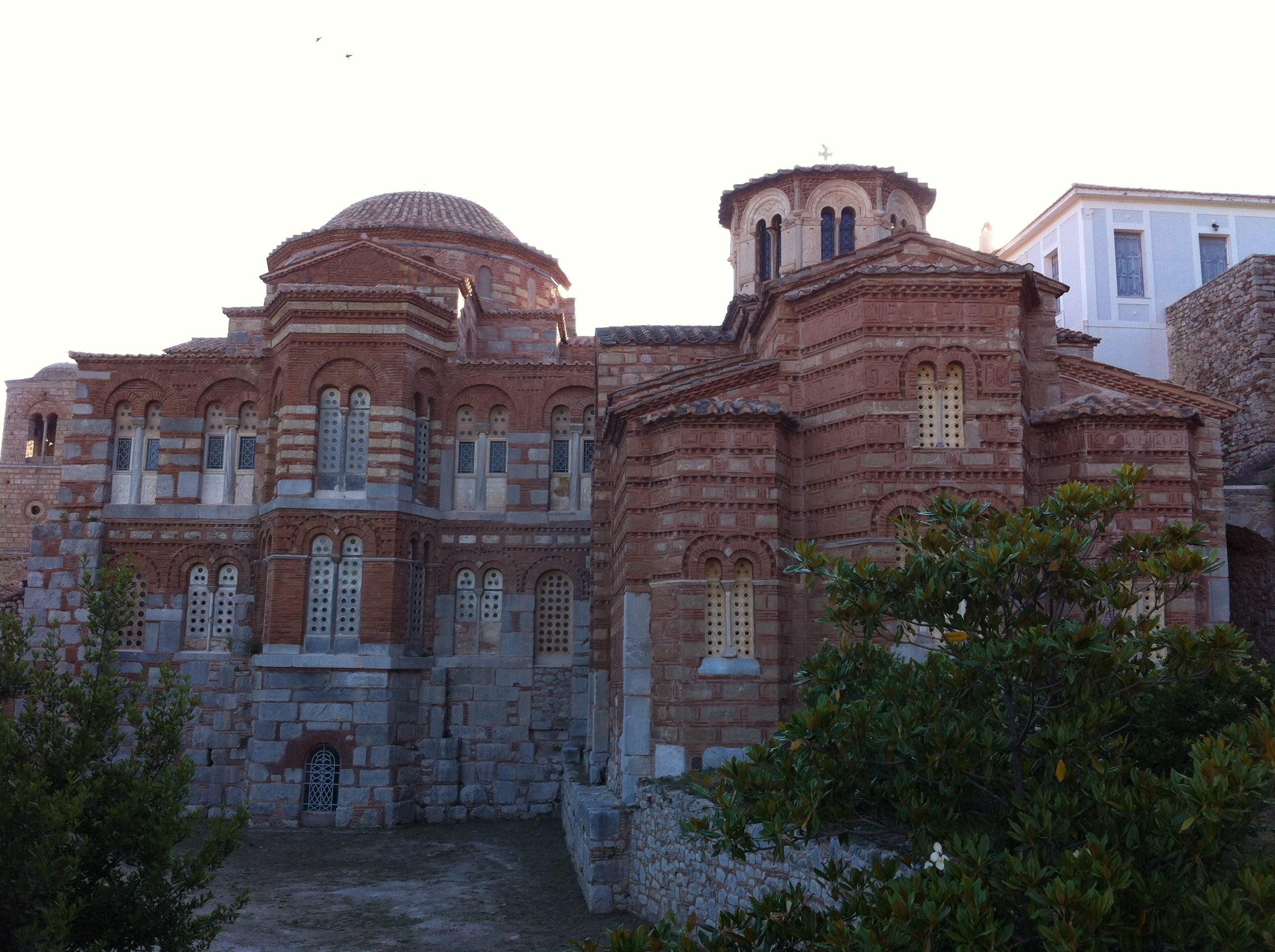 The eastern facade of the Katholikon & chapel of the Byzantine monastery of Osios Loukas in Voiotia, Greece